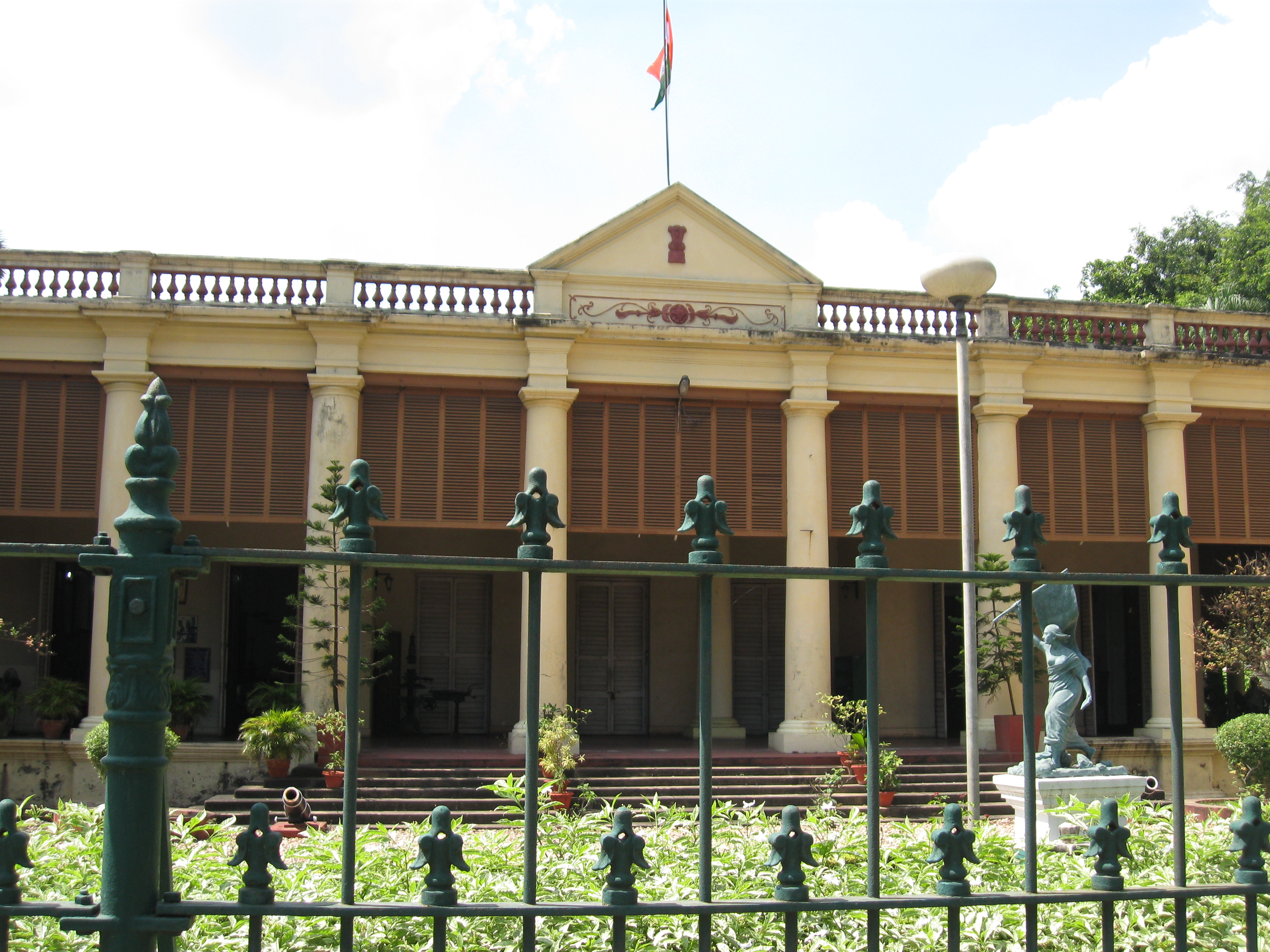 Dupleix Palace(Institute de Chandan Nagar)